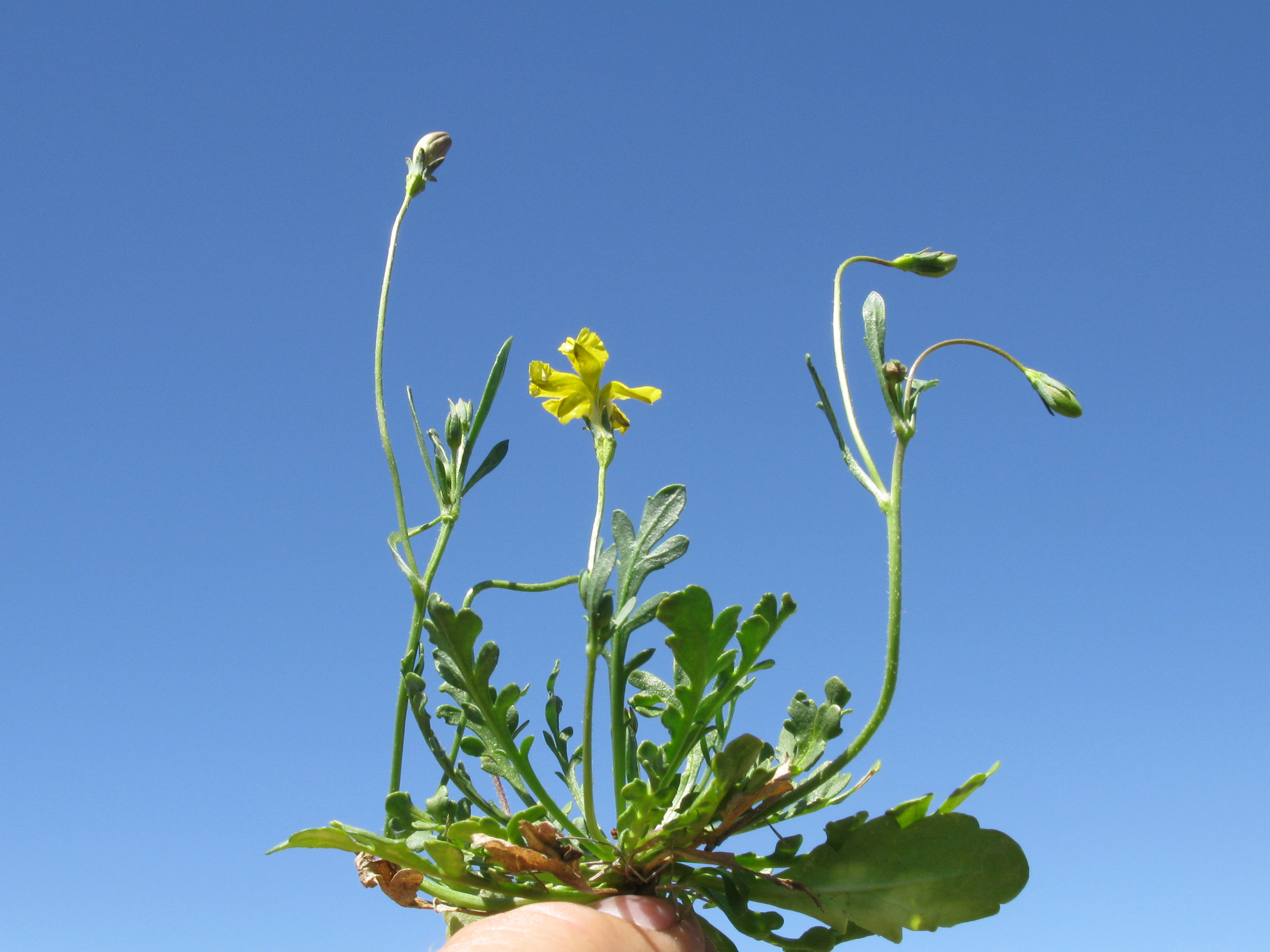 Native, cool season, perennial, decumbent to ascending herb to 40 cm tall; plants may have crisped simple hairs or behairless. Basal leaves form a rosette and are oblong to oblanceolate, mostly 5–8 cm long, 3–20 mm wide; margins are toothed to pinnatisect. Flowers occur in leafy racemes or subumbels on stalks 20–120 mm long. Petals are 8–19 mm long, bright yellow, hairless or with a few crisped hairs outside, but densely bearded inside; lobes are often reflexed. Fruit are rounded and about 8 mm long. Flowering is mostly from May to December.